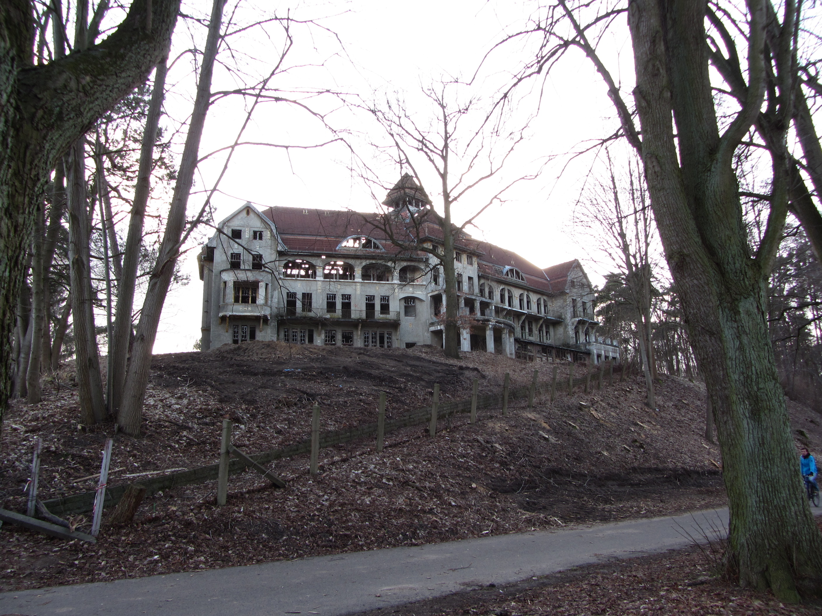 Kurhotel Zippendorf in Schwerin, Mecklenburg-Vorpommern, Germany